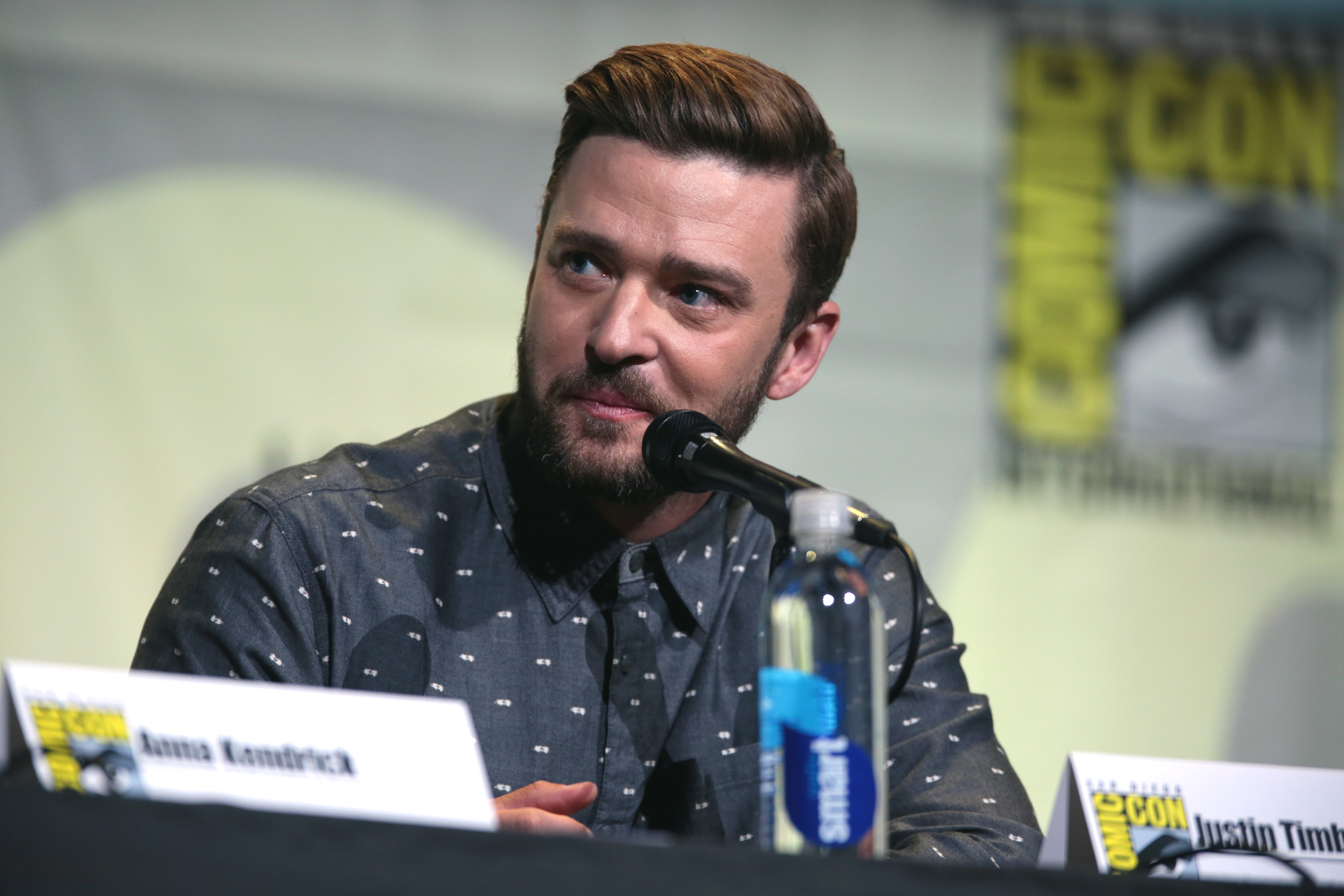 Justin Timberlake speaking at the 2016 San Diego Comic Con International, for "Trolls", at the San Diego Convention Center in San Diego, California.